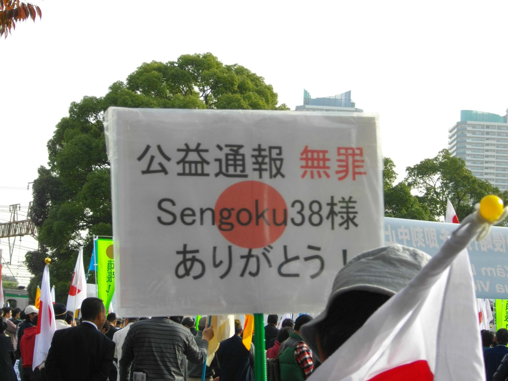 Anti-Democratic Party of Japan placard bearing the words "Public Interest Speak-up is innocence. Mr. sengoku38, thank you!"